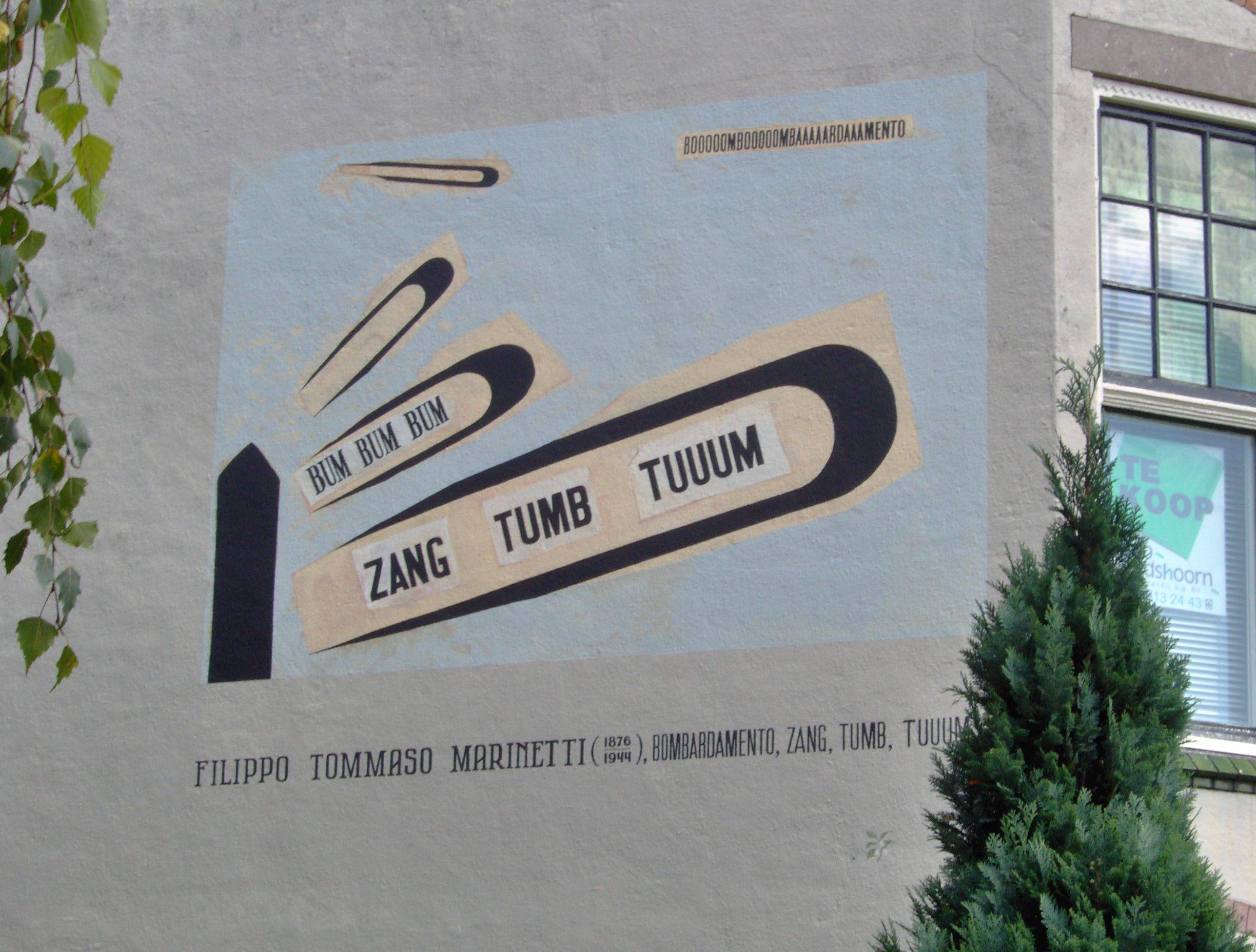 The poem Zang tumb tumb of the Italian poet Filippo Tommaso Marinetti on a wall of the building at the Hoge Rijndijk 8, Leiden, The Netherlands